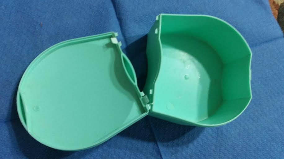 The part that connect the two parts of the plastic box is broken